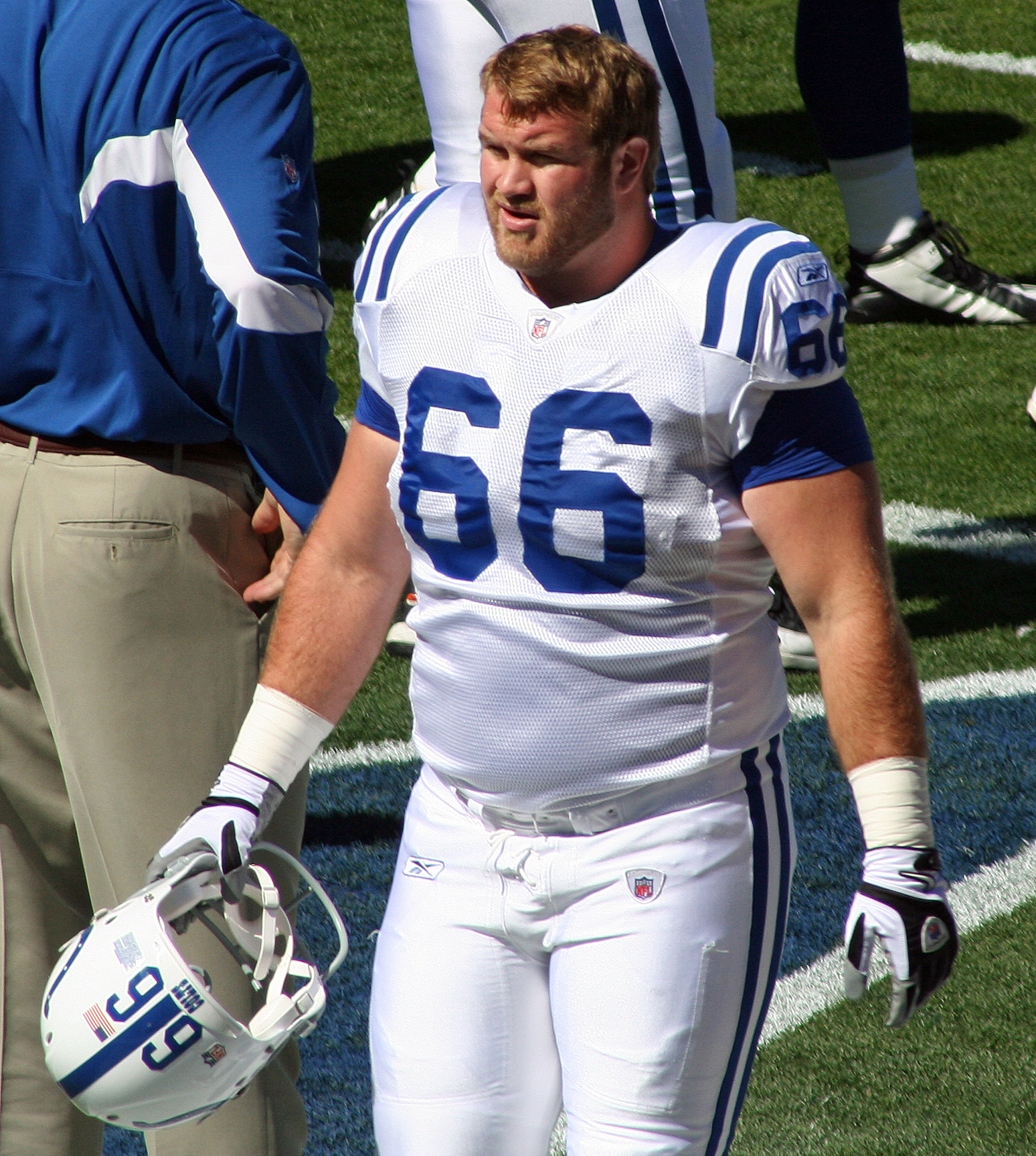 Kyle DeVan, a player on the Indianapolis Colts American football team.